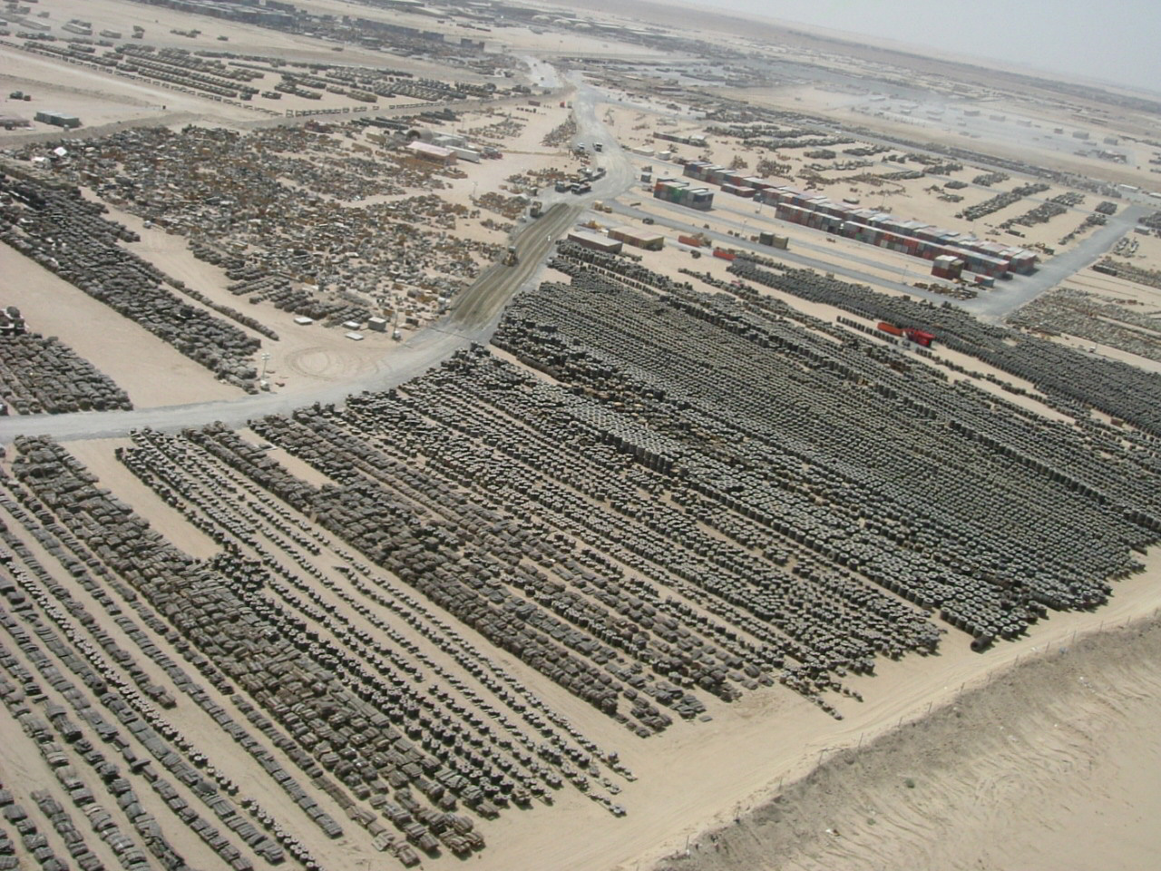 Thousands of tires and other equipment line a staging area at the United States Army's Camp Arifjan in Kuwait. Most of the vehicles and combat equipment that are off-loaded from MSC ships at the Port of Ash Shuaybah make a stop at Camp Arifjan before being routed to their final destination in the Middle East. File photo